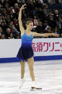 Polina Edmunds at the 2015 Skate Canada.